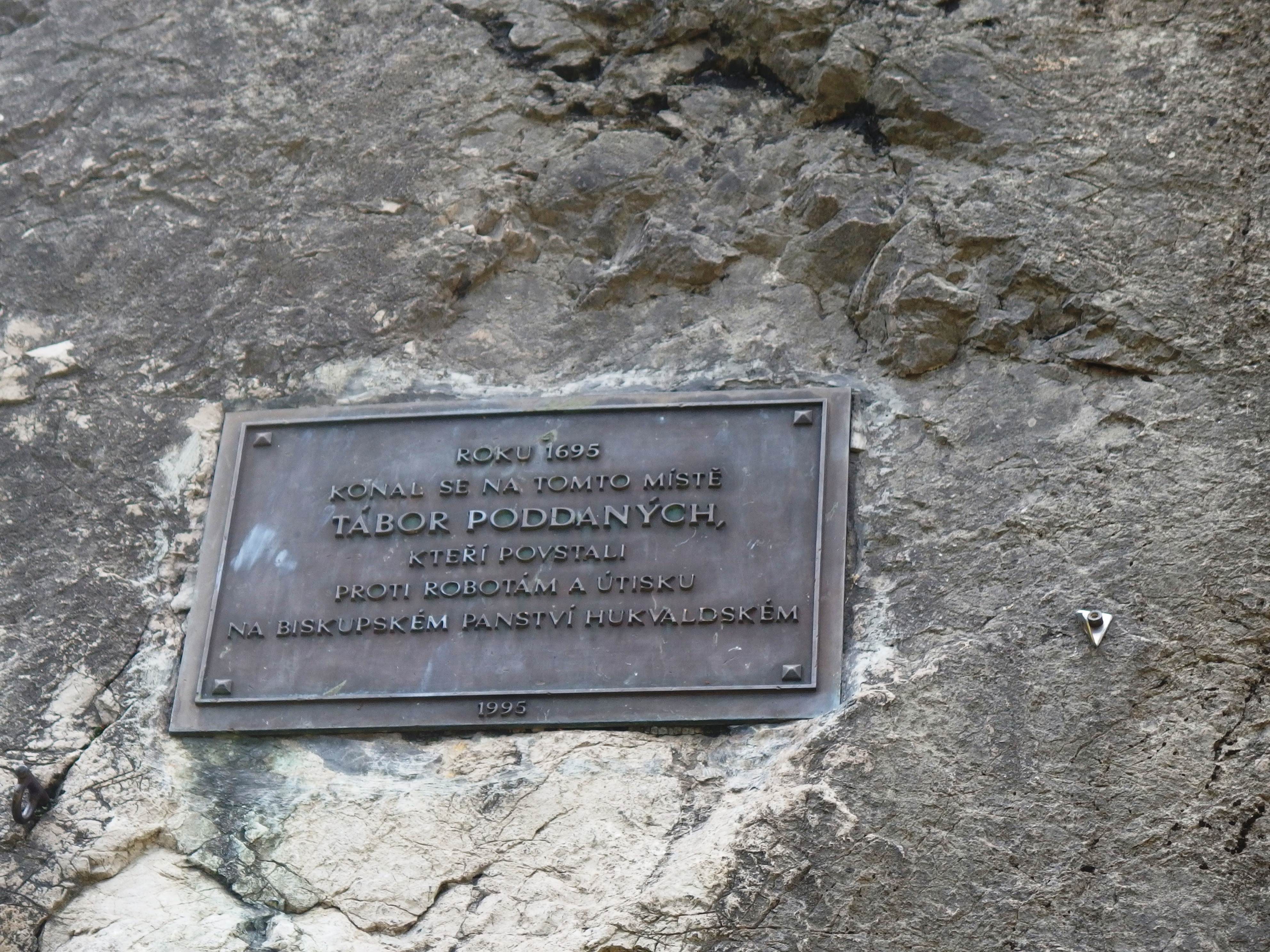 Kopřivnice, Nový Jičín District, Czech Republic. Váňův kámen, natural monument.